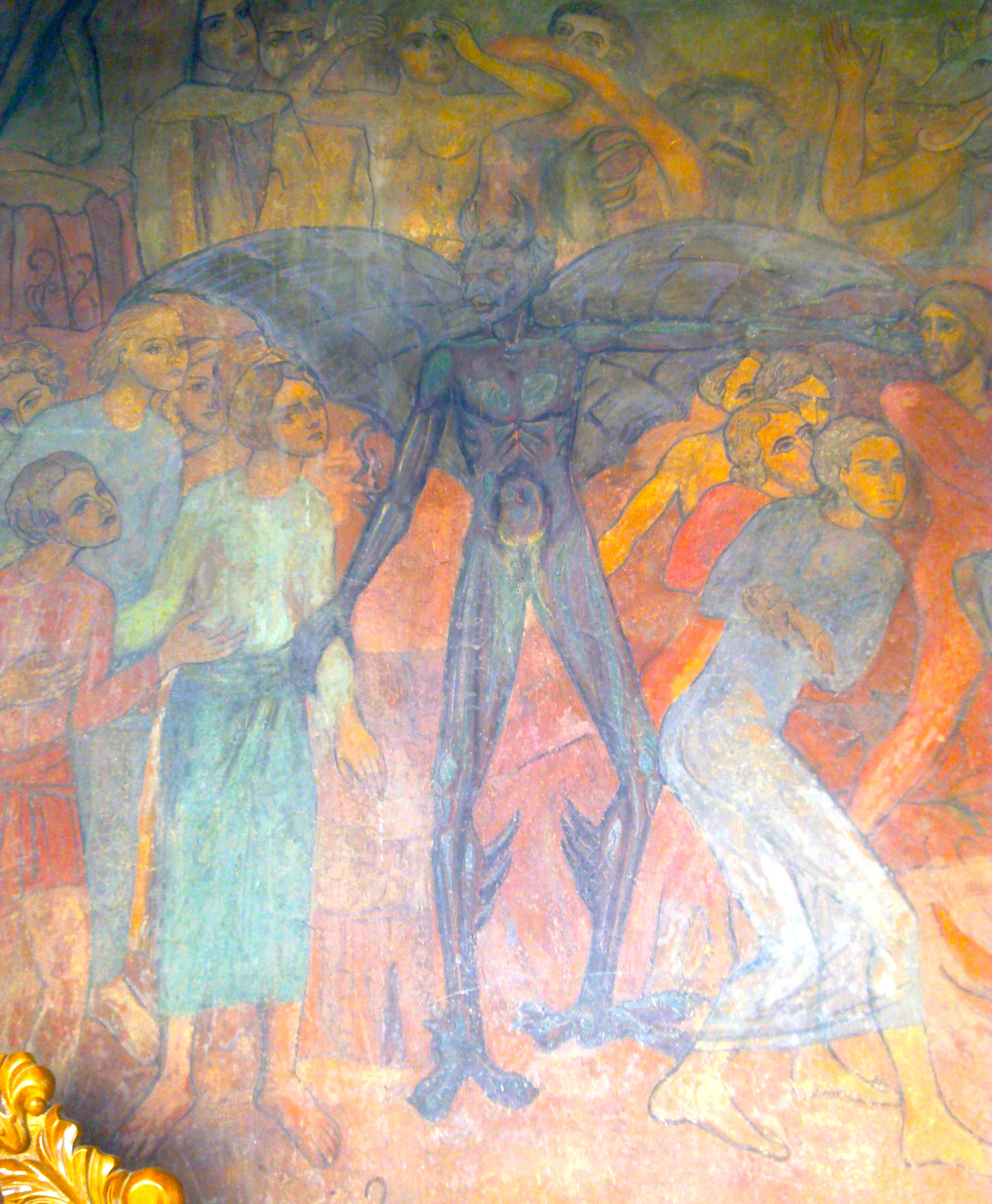 Fresco (1938) representing the philosopher Nae Ionescu on the metropolitan basilica of Bucharest (Romania)